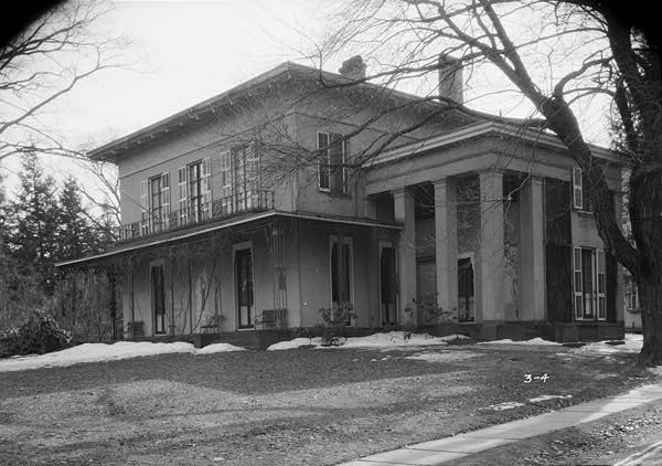 Photograph of the Richard Alsop IV House, a National Historic Landmark in Middletown, Connecticut, United States.